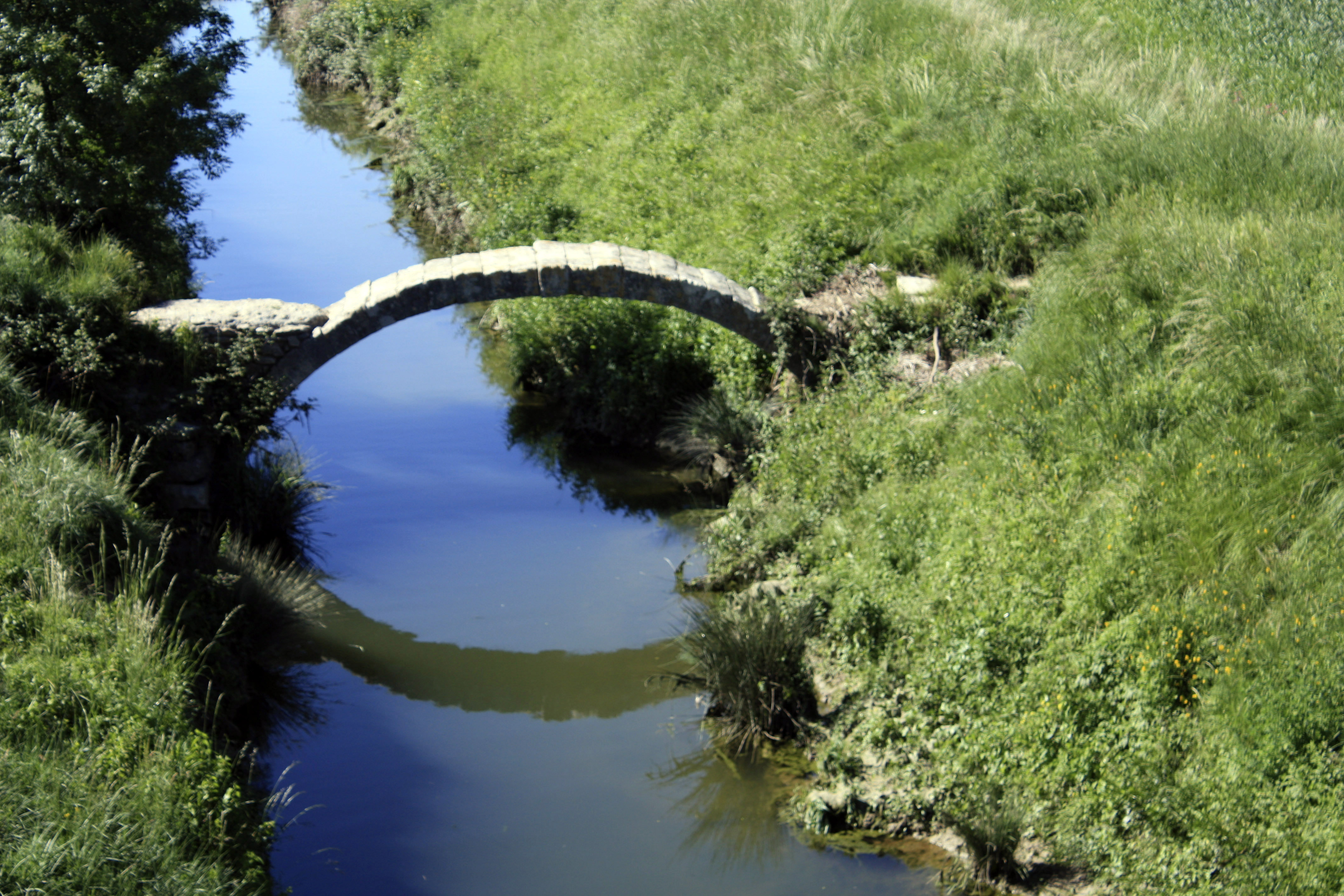 The former path to Nîmes, also known as footbridge Cavalier (1783), passed by the Ania Bridge upon the Rhôny.